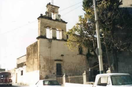 Church